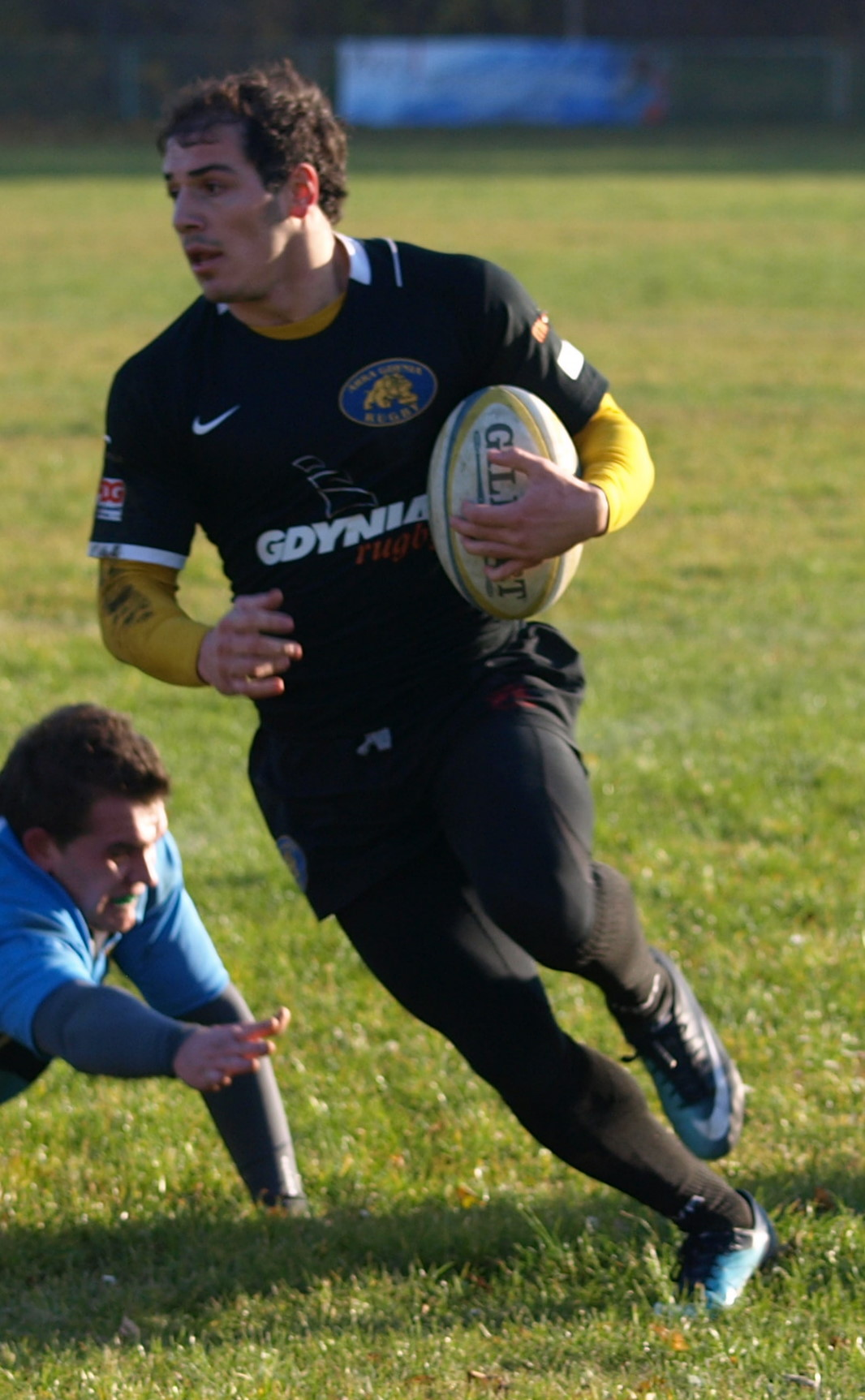 Georgian rugby union player Beka Tsiklauri during polish Ekstraliga match between Arka Gdynia and Ogniwo Sopot.